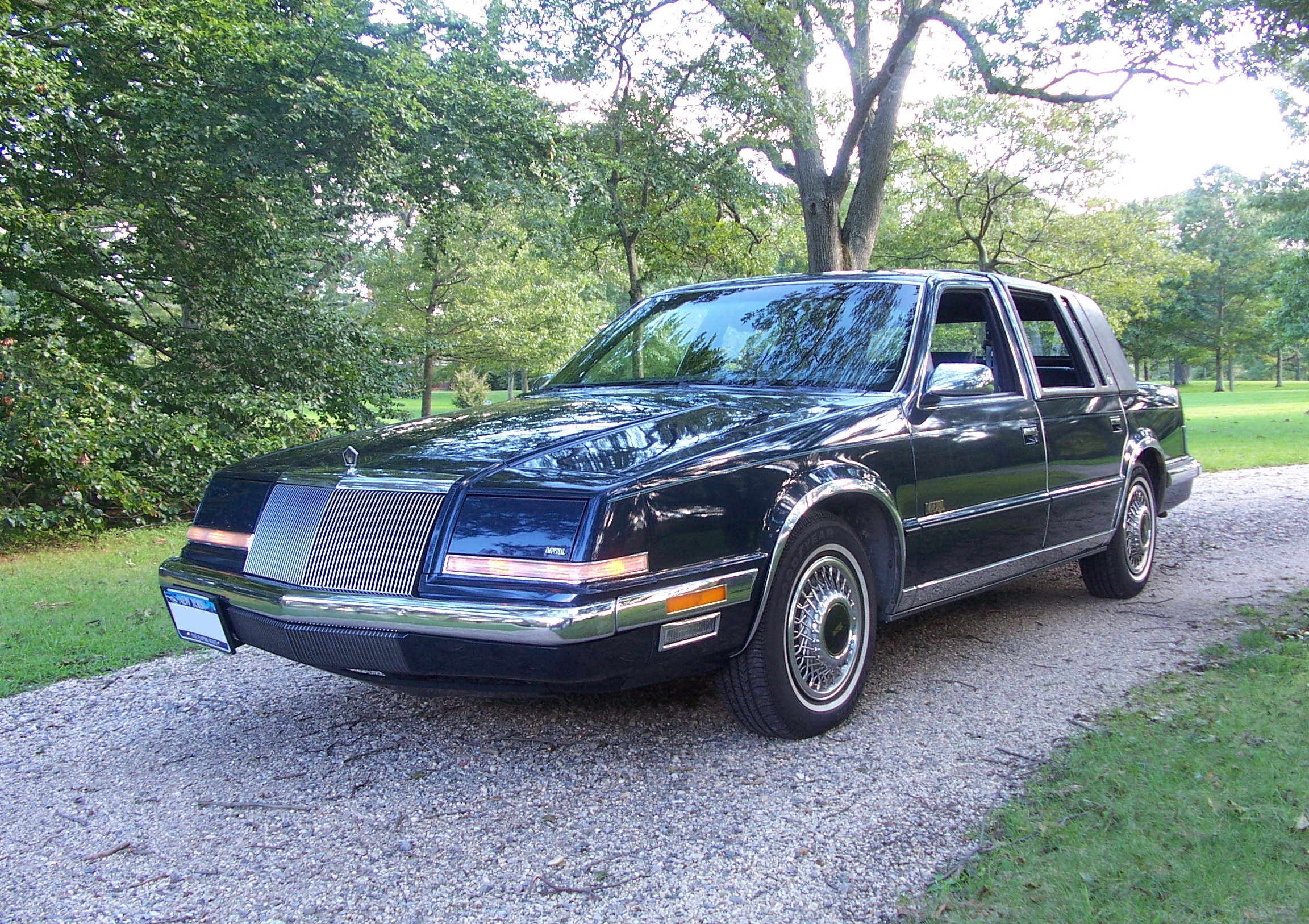 Midnight Blue 1992 Chrysler Imperial (concealed headlights closed)